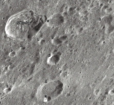 Stiborius lunar crater as seen from Earth with satellite craters labeled